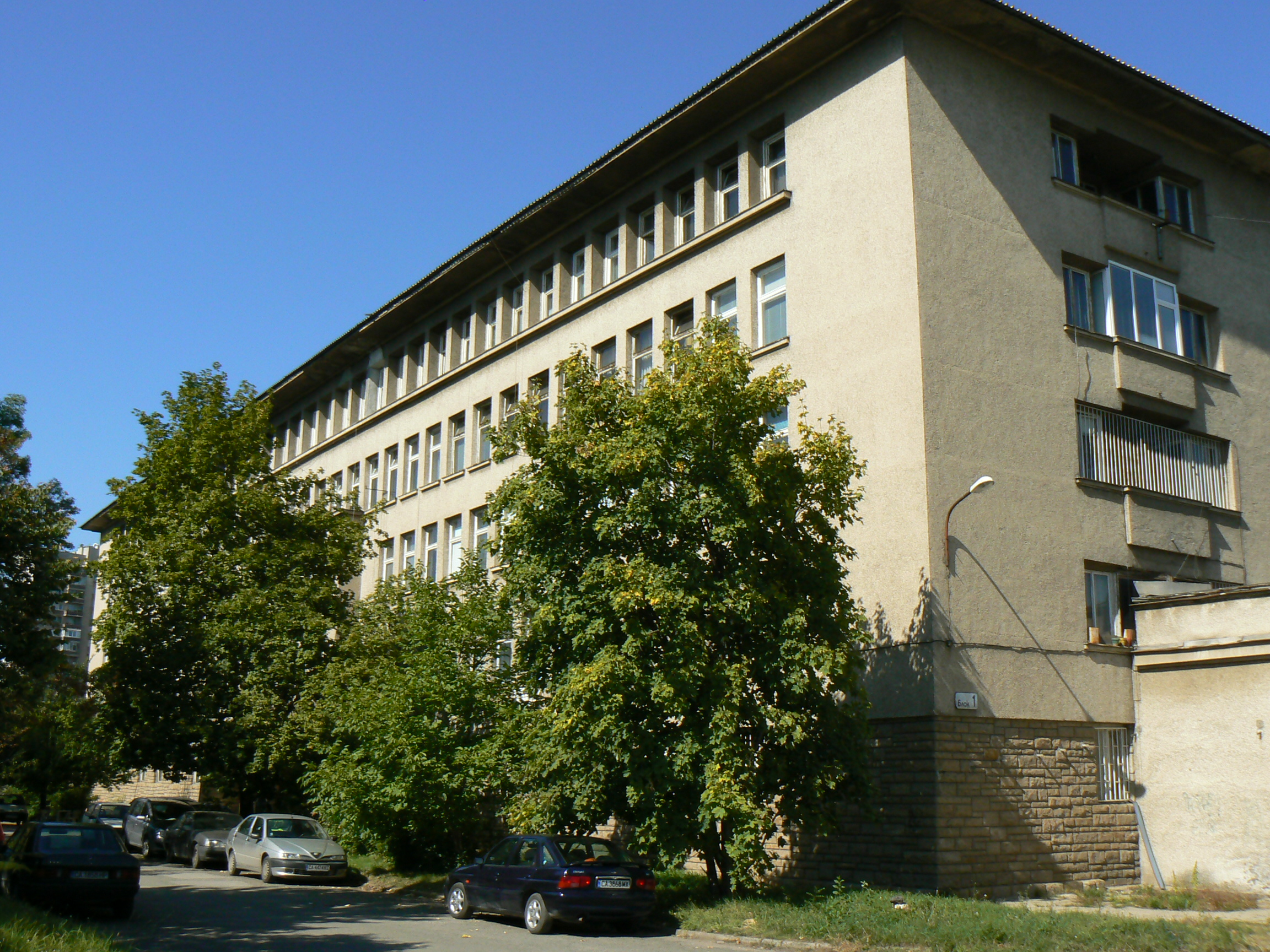 Block 1 of the Campus of Bulgarian Academy of Sciences in Sofia. It hosts the Central Laboratory of Geodesy, the Centre for Architectural Studies, the Institute for Water Problems, the Central Laboratory of Mechantronics and Instrumentation